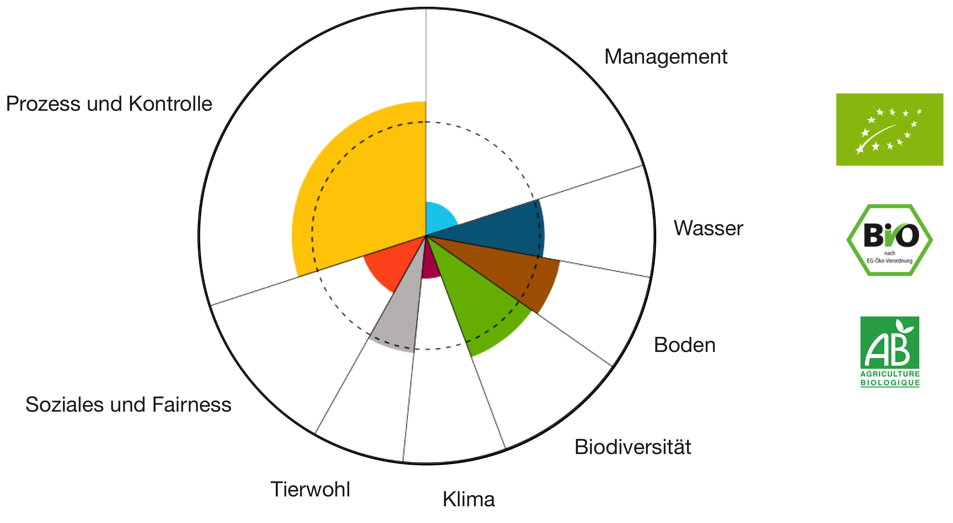 Rating, 2015 Ranking of the Label EU certified organic food label (and their equivalent and now obsolete national logos) following the EU-Eco-regulation (limited recommendable – 83 points)